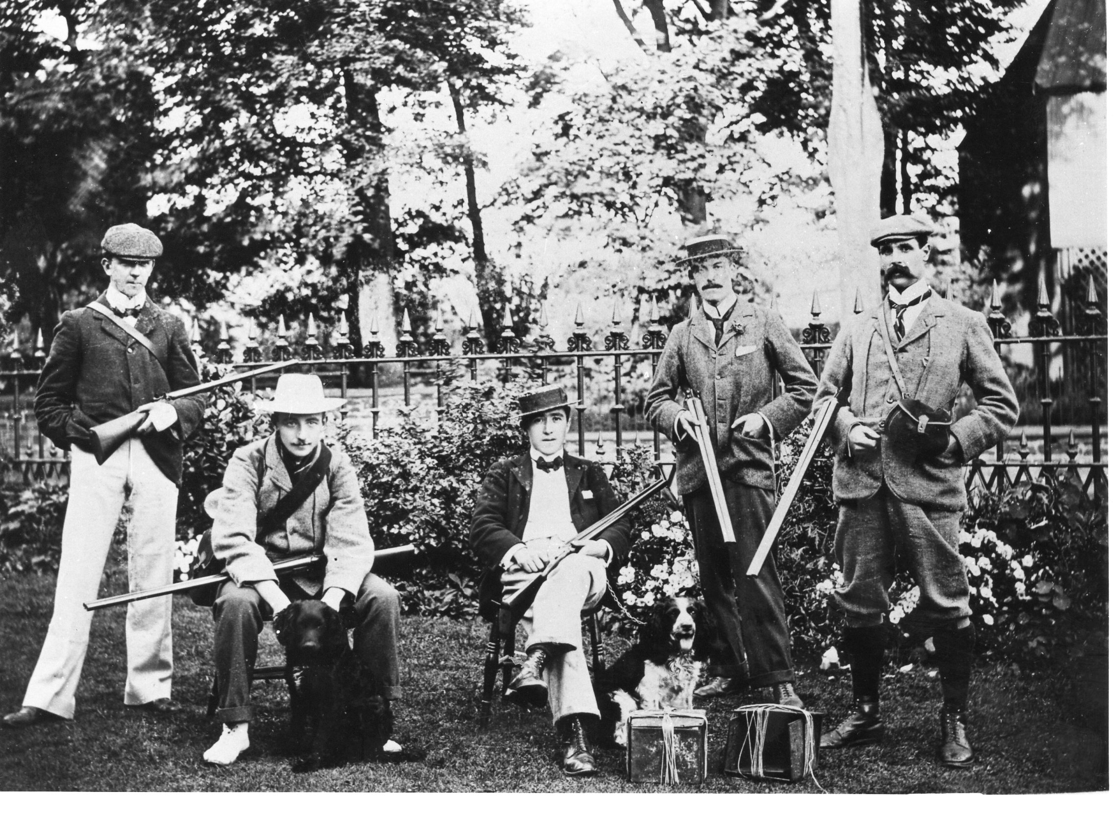 Agricultural College Photograph